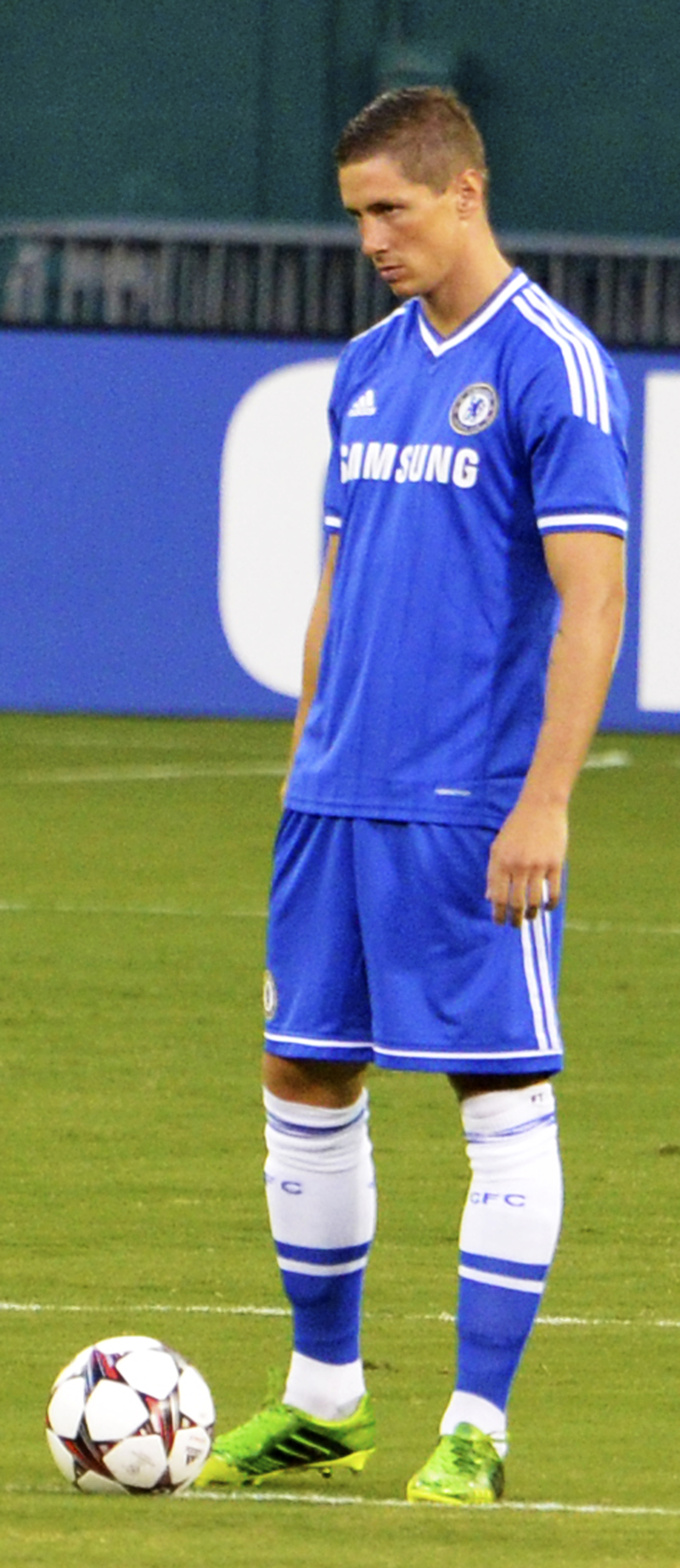 Fernando Torres after an early A.S. Roma goal in an exhibition at Washington D.C.'s RFK stadium in August 2013.